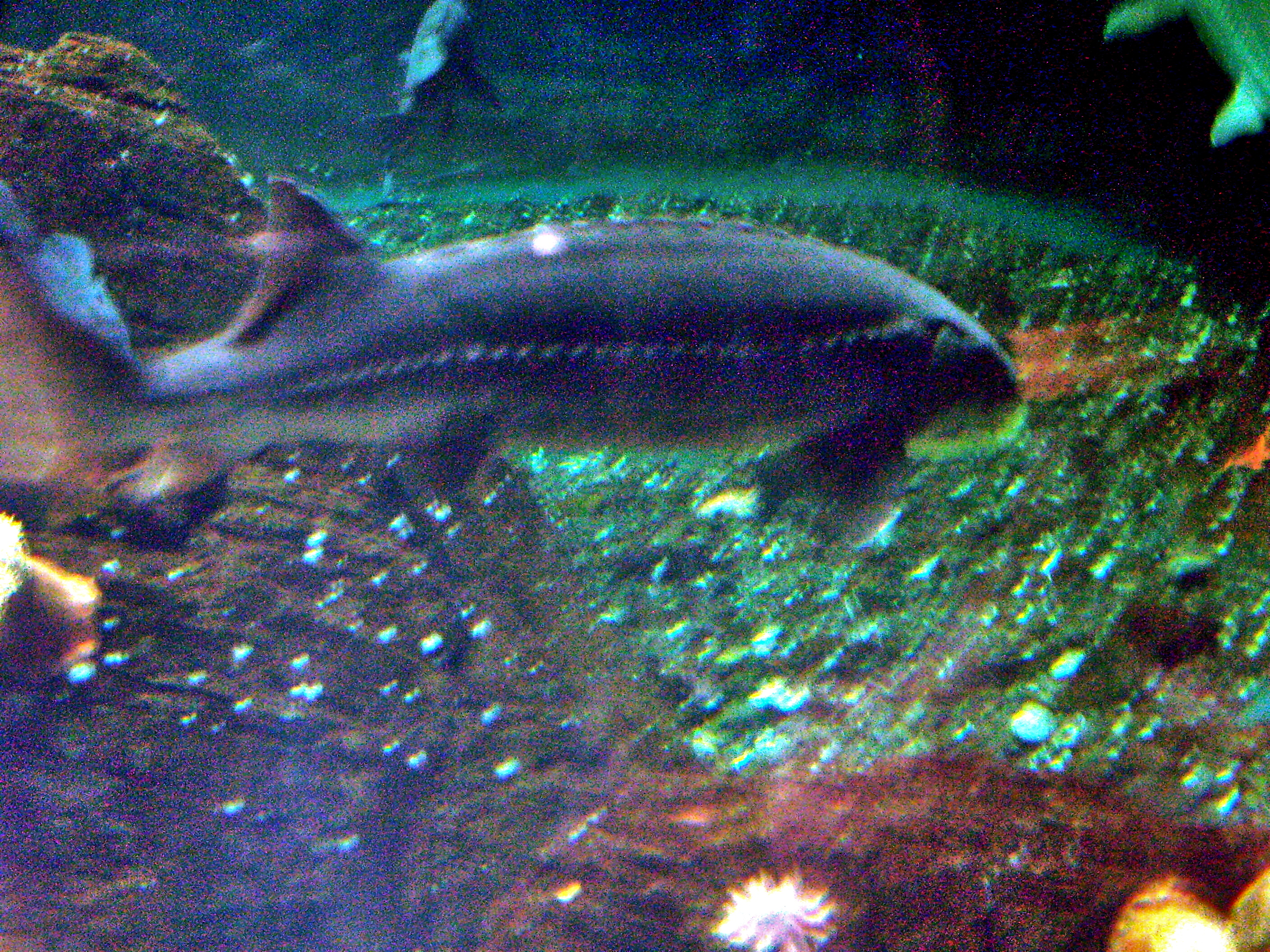 White Sturgeon at Vancouver Aquarium